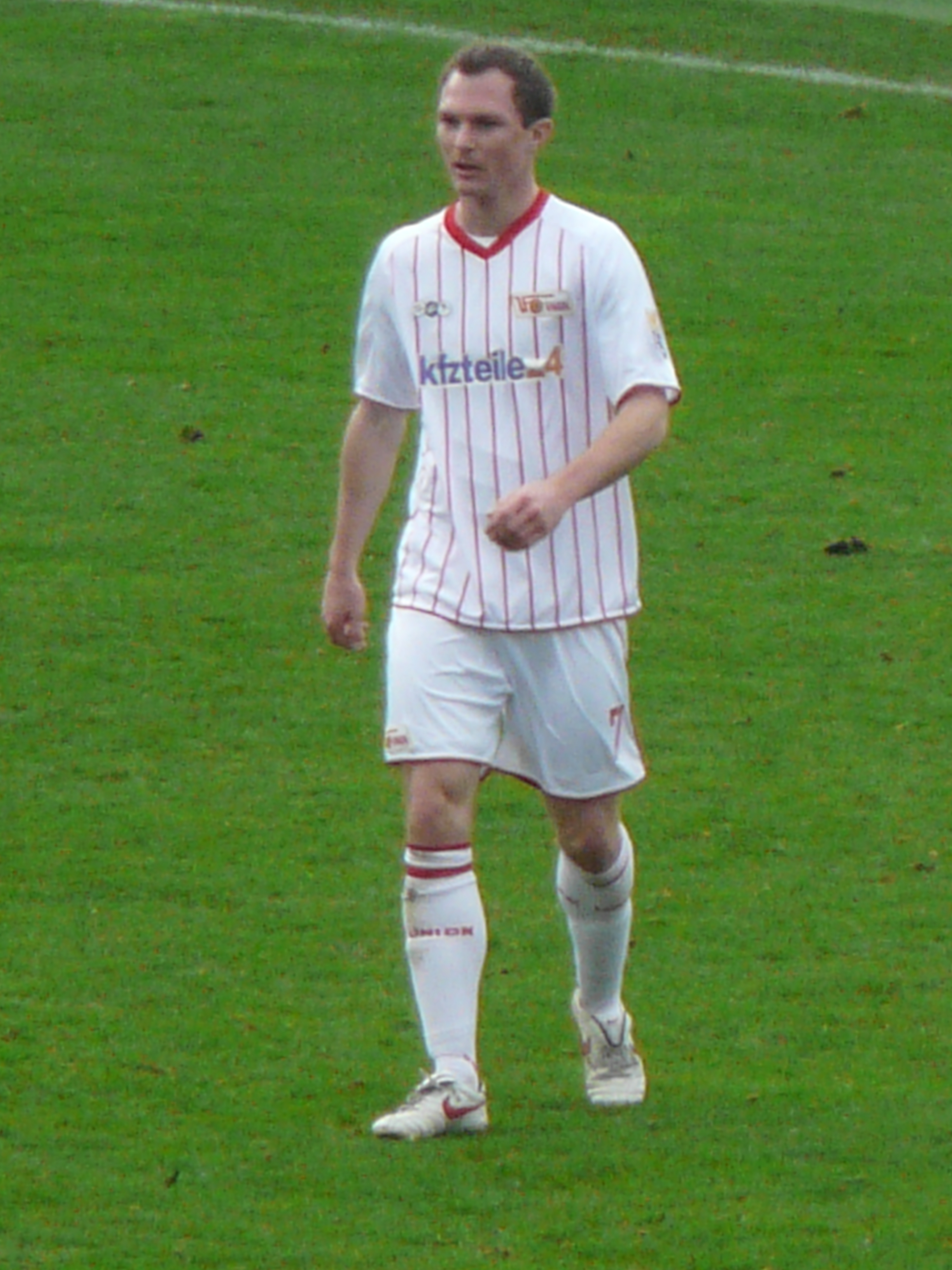 Patrick Kohlmann as Player from Union Berlin